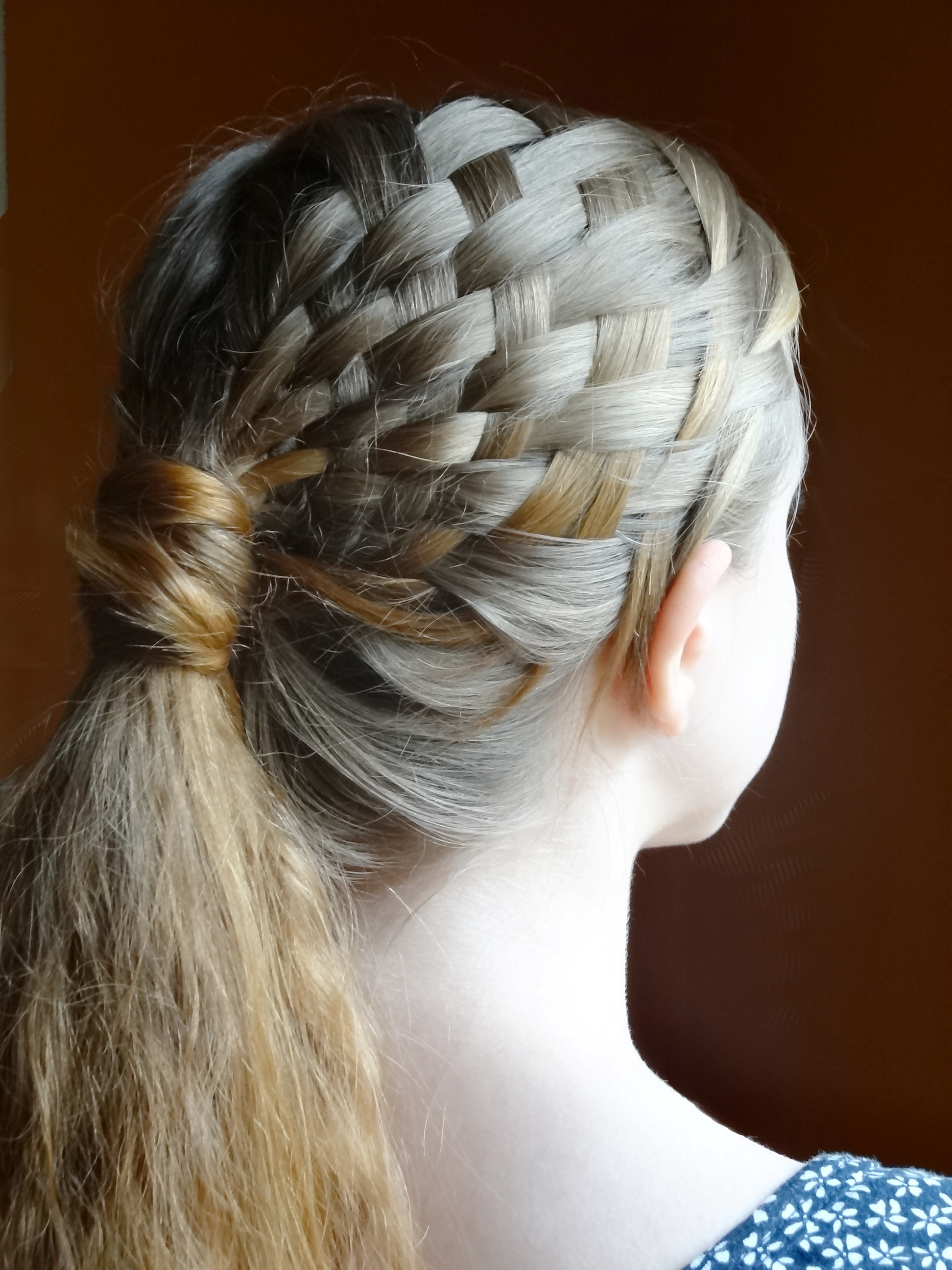 girl with woven hair and ponytail